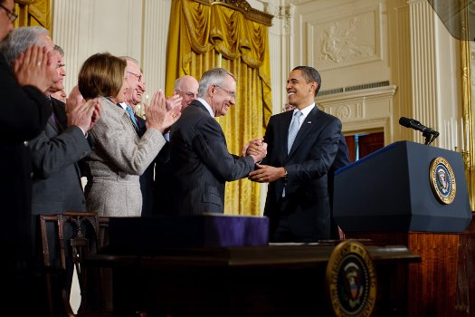 President Barack Obama shakes hands with Senate Majority Leader Harry Reid after signing the Omnibus Public Lands Management Act of 2009. White House Photo, 3/30/09